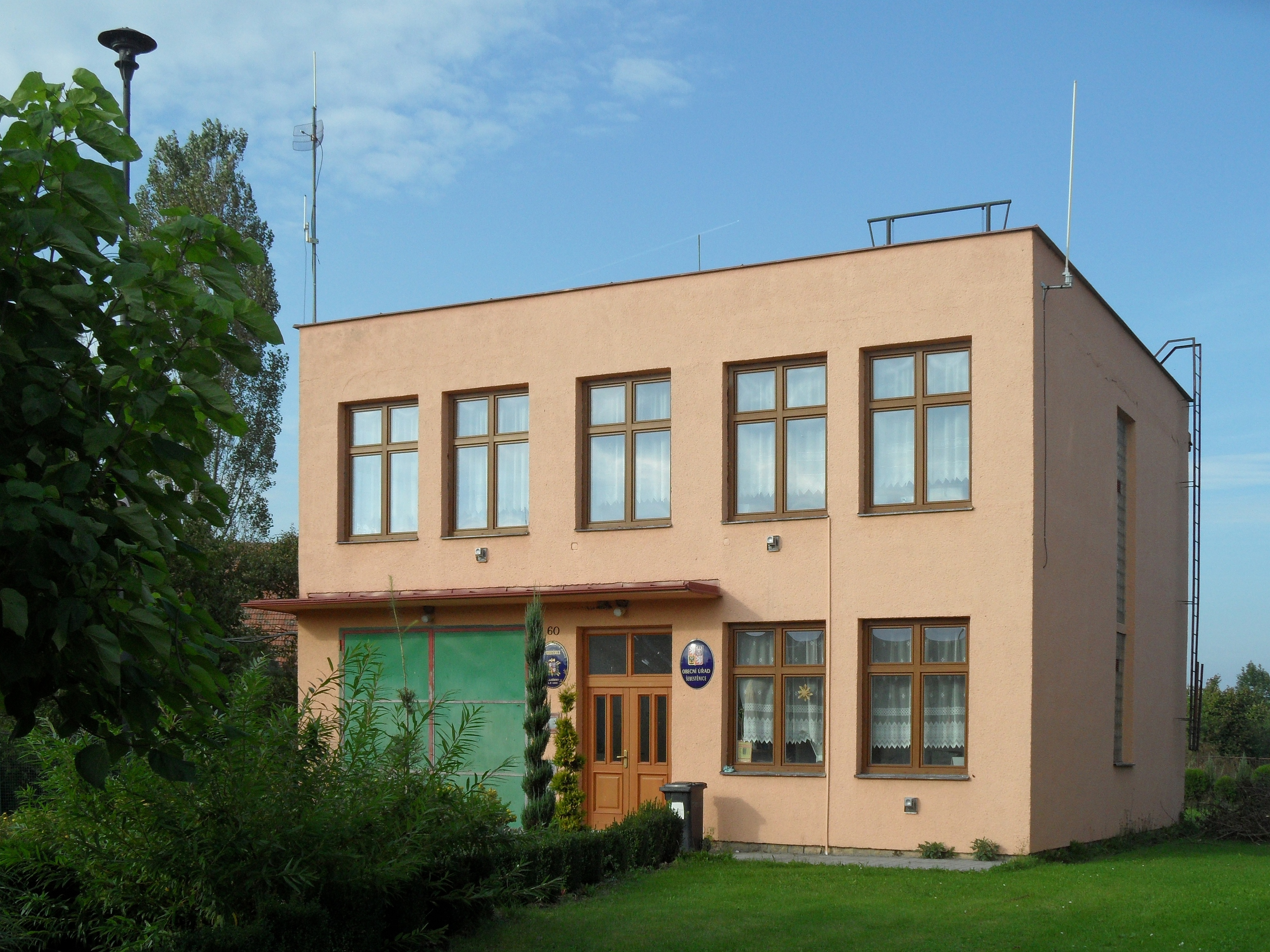 Šebestěnice C. Building of Municipality Office, Kutná Hora District, the Czech Republic.